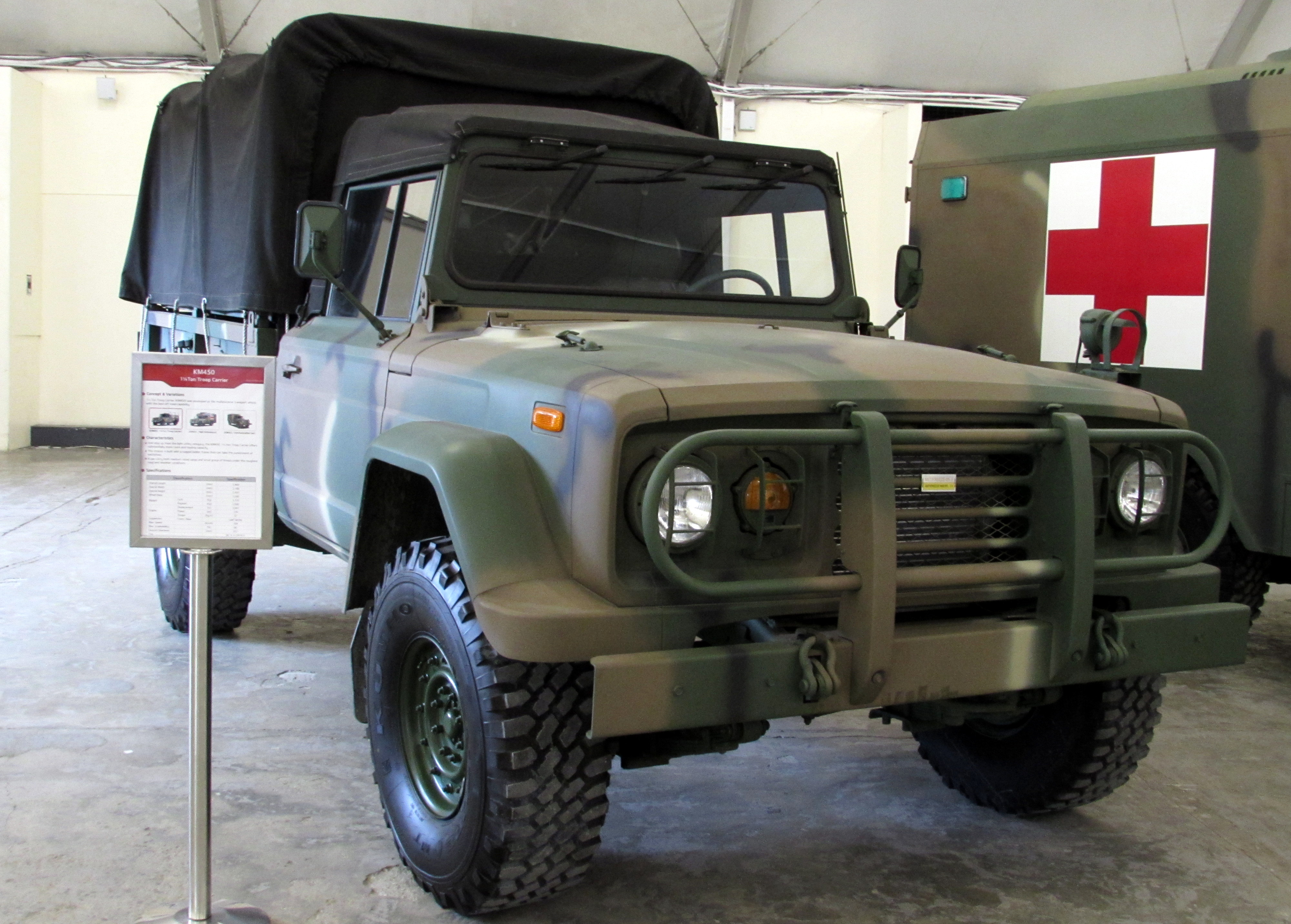 A Kia KM450 Troop Carrier, the same one bought by the Philippine Army. Photo taken during the 2016 Asian Defence and Security (ADAS) Trade Show at the World Trade Center in Pasay, Metro Manila